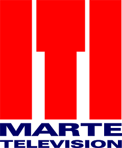 Second logo of "Marte TV" used (with variations) in 1999 has 2001.